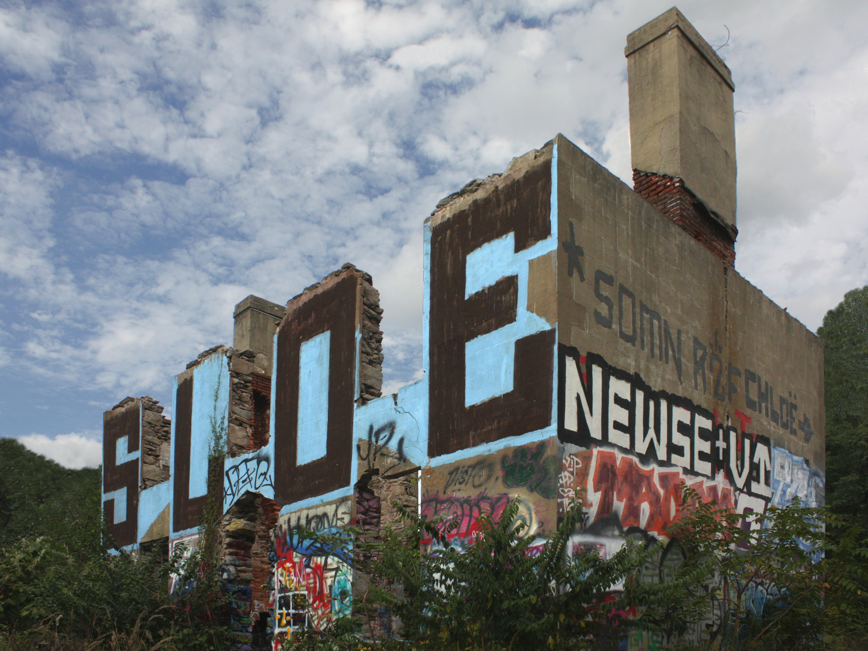 The Cliffs Mansion, Fairmount Park, Philadelphia, Pennsylvania